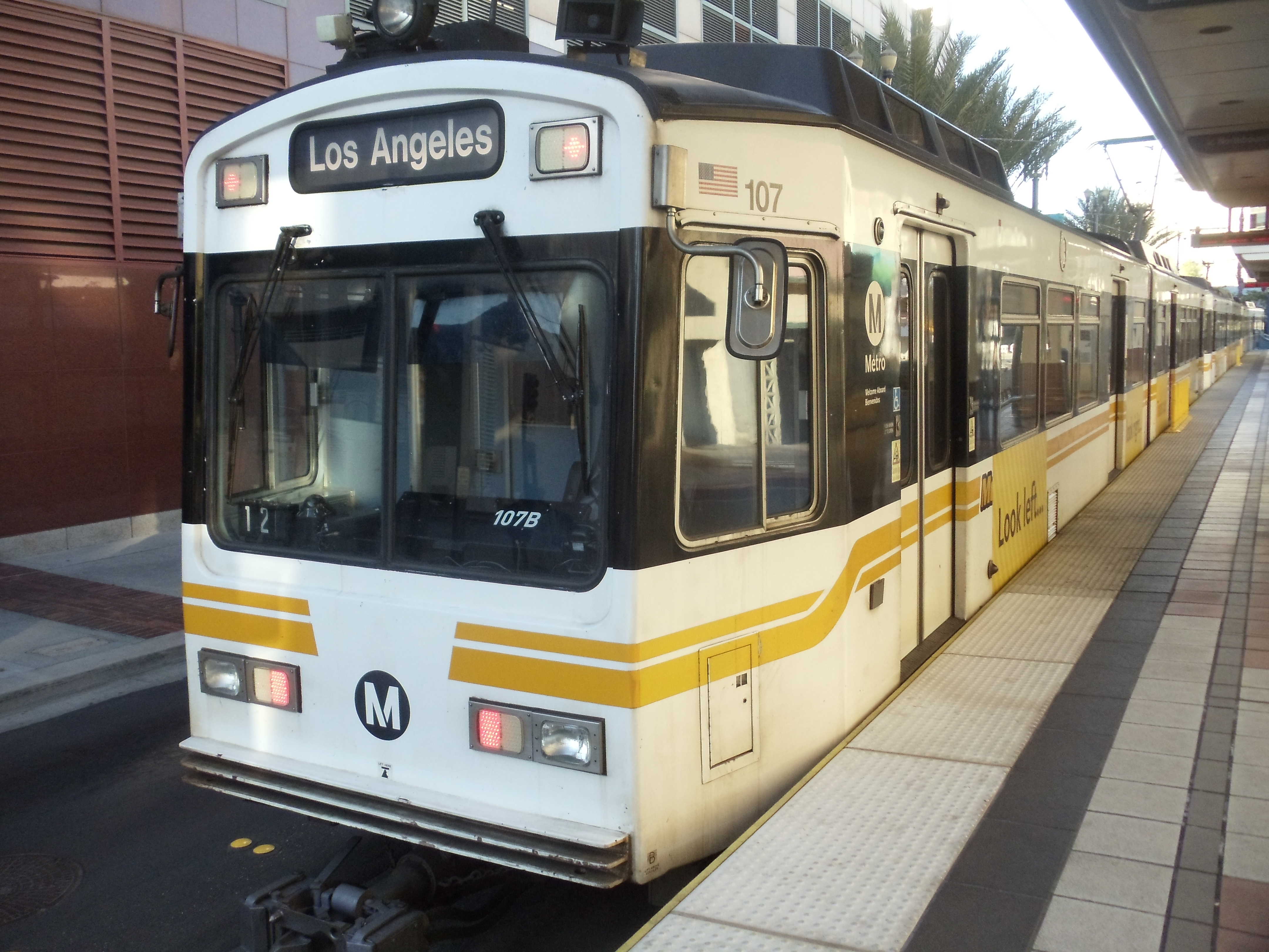 Metro Blue Line Nippo P850 train leaving Long Beach Civic Center Station.